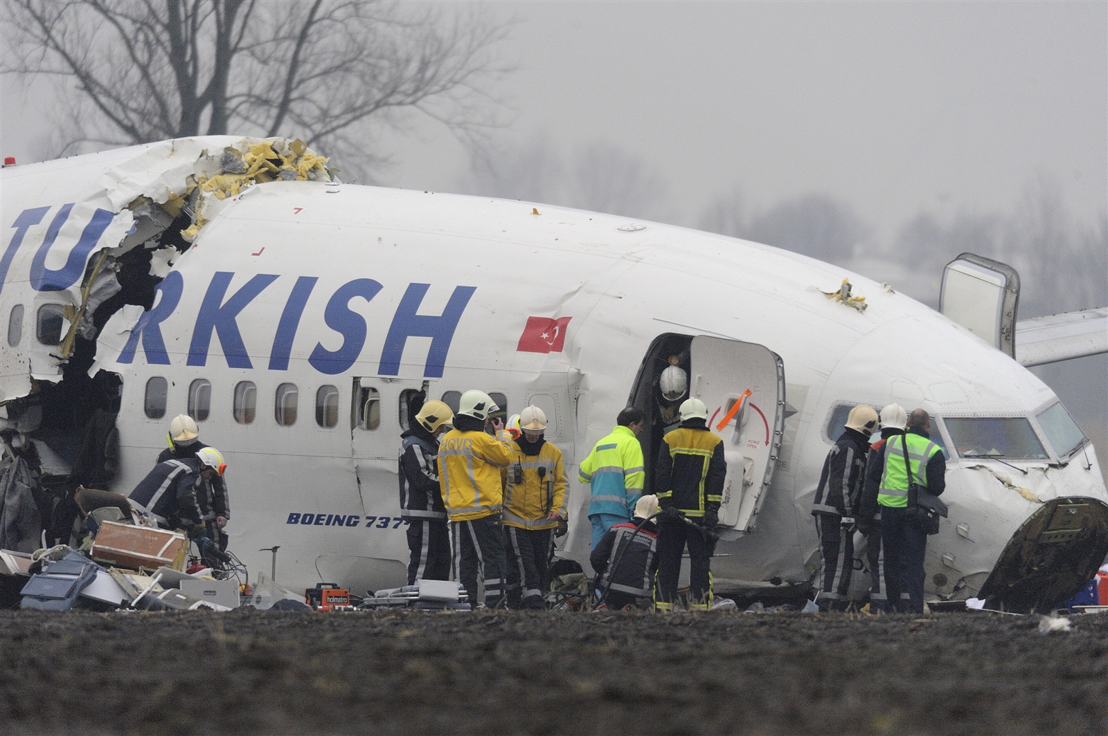 Crash site of Turkish Airlines Flight 1951, Boeing 737-8F2 (TC-JGE, "Tekirdağ"), at Schiphol Airport, near Amsterdam, The Netherlands. 25 February 2009; Copyright Fred Vloo / RNW